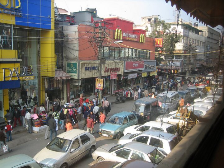 Karol Bahg Market, Ajmal Khan Road and Padam Singh Road Intersection